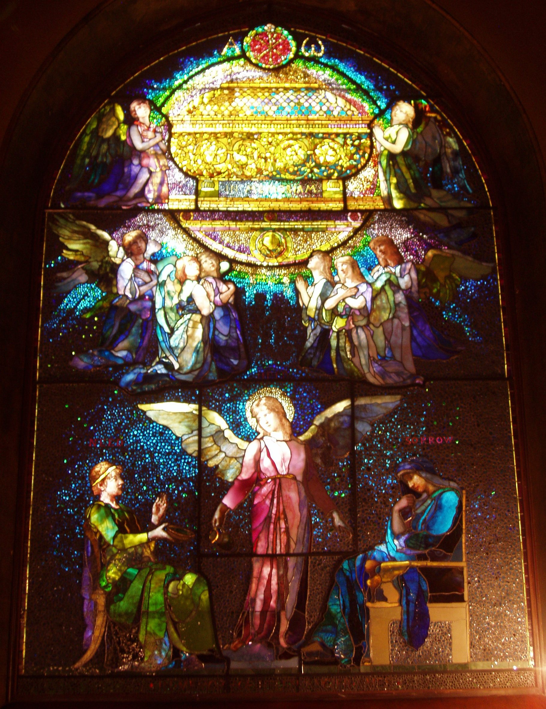 Photograph of a stained glass window entitled "Angel of Help" by John LaFarge (1835-1910), made 1886, in the Unity Church, North Easton, Massachusetts, USA. Window restored by Victor Rothman for Stained Glass, Yonkers, NY